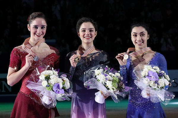 The ladies podium at the 2017 World Figure Skating Championships. From left: Kaetlyn Osmond (2nd), Evgenia Medvedeva (1st), Gabrielle Daleman (3rd).